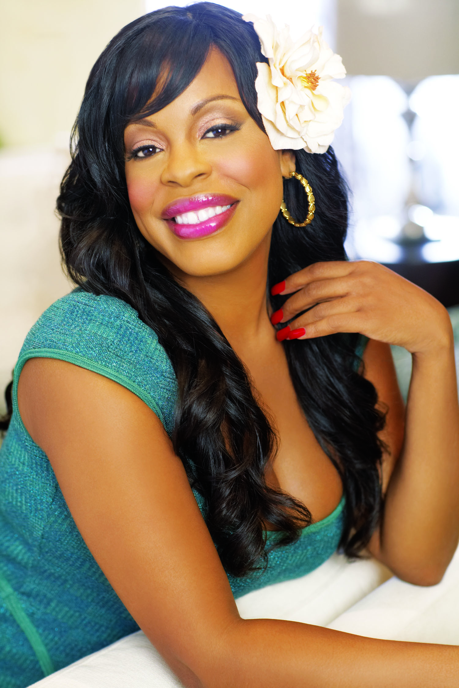 Niecy Nash by Clorox Toilet Products